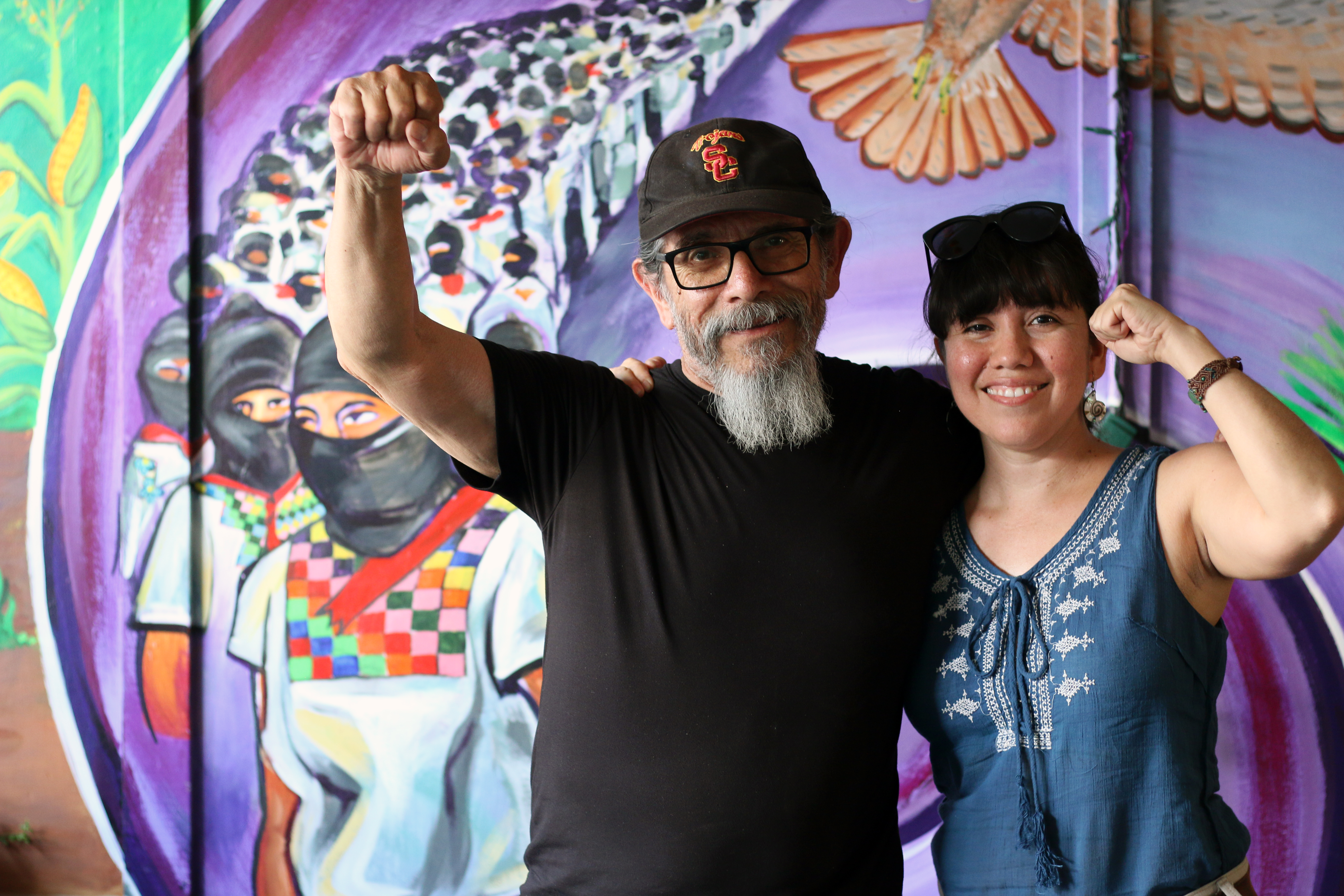 Angela and Roberto Flores of Eastside Cafe in El Sereno, CA